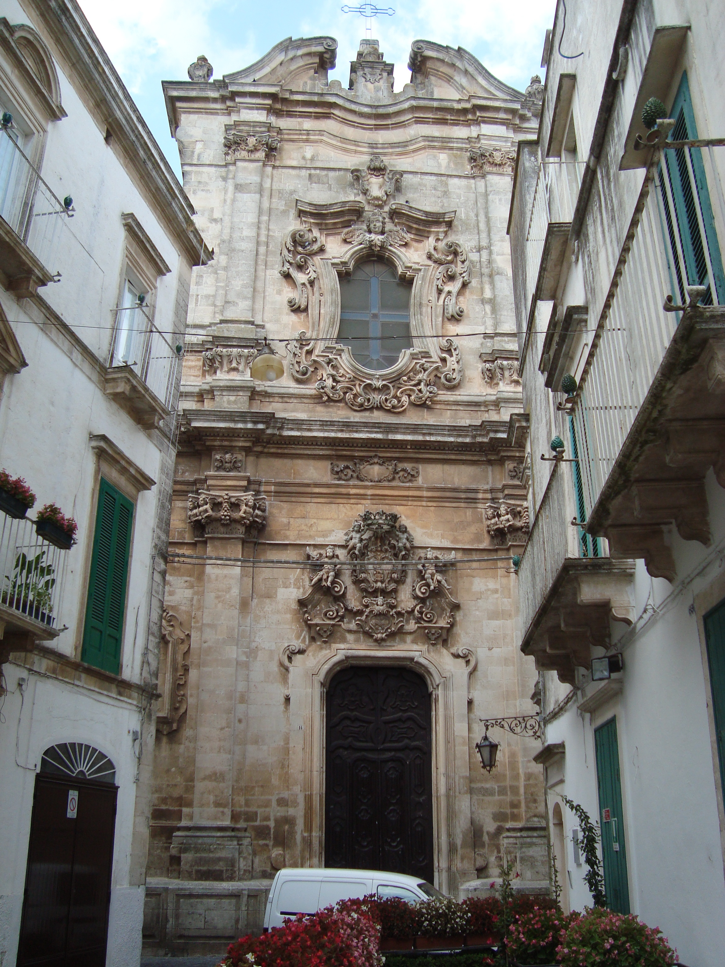 The churche San Domenico in Martina Franca, Apulia